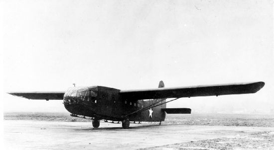 Waco XCG-13 cargo glider prototype. (Note roundel type and positioning.)